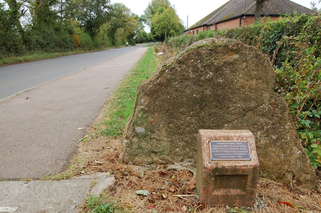 Old boundary stone near Cropredy bridge. It is thought to date from the C15 or C16, and hence likely to have been in place when the battle of Cropredy Bridge was fought in the surrounding fields in 1644. The stole was re-erected as part of the 2002 Queen's Golden Jubilee celebrations.